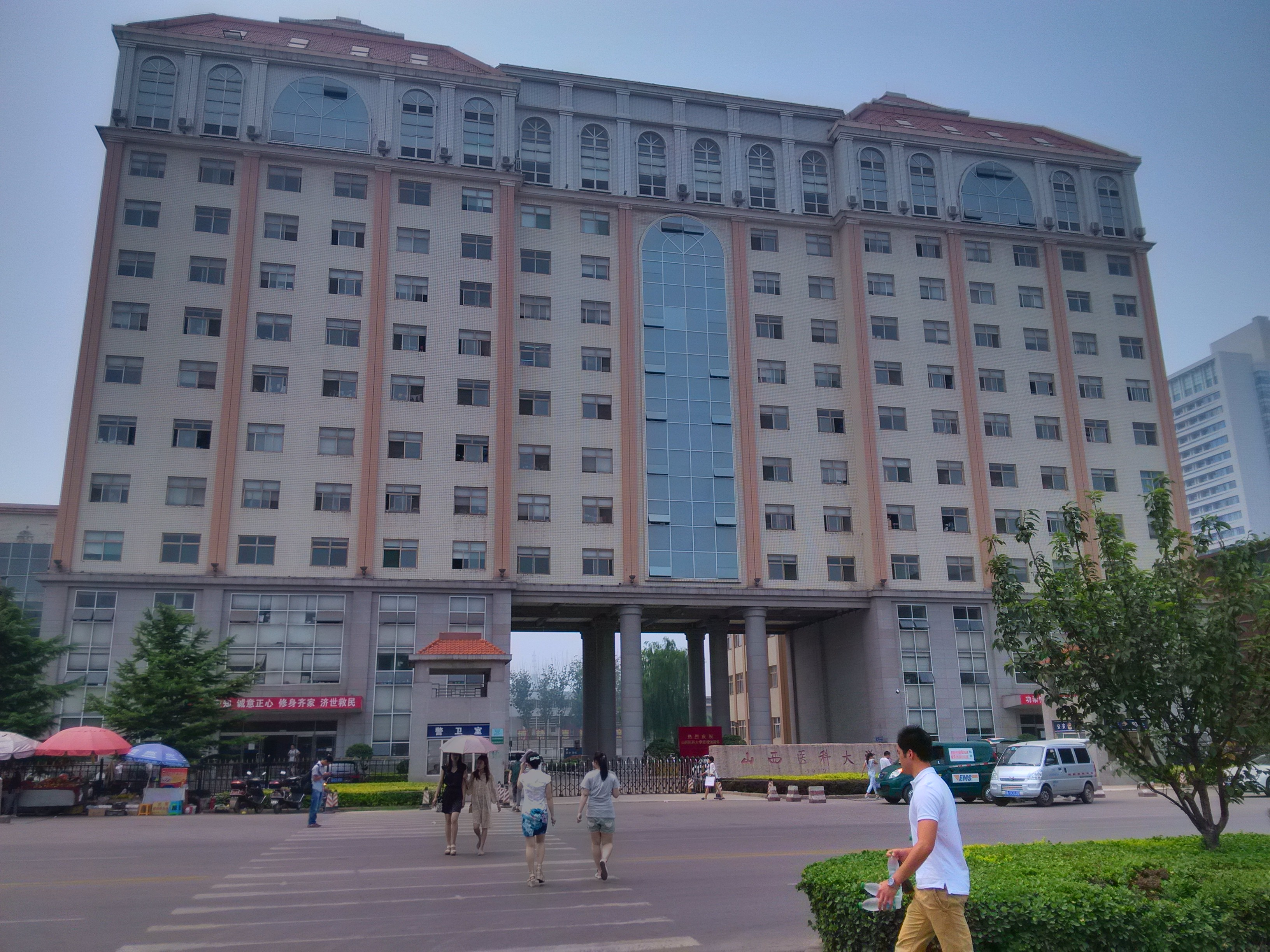 中文（中国大陆）: 山西医科大学教学行政大楼、东门。摄于山西医科大学东门东侧。中文（中国大陆）: Shanxi Medical University.